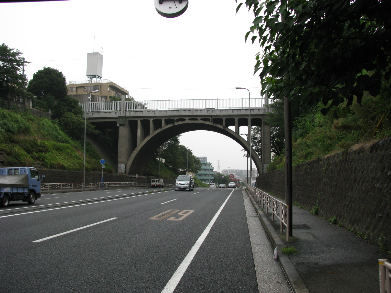 This bridge is named a "Hibikibasi" in Yokohama.